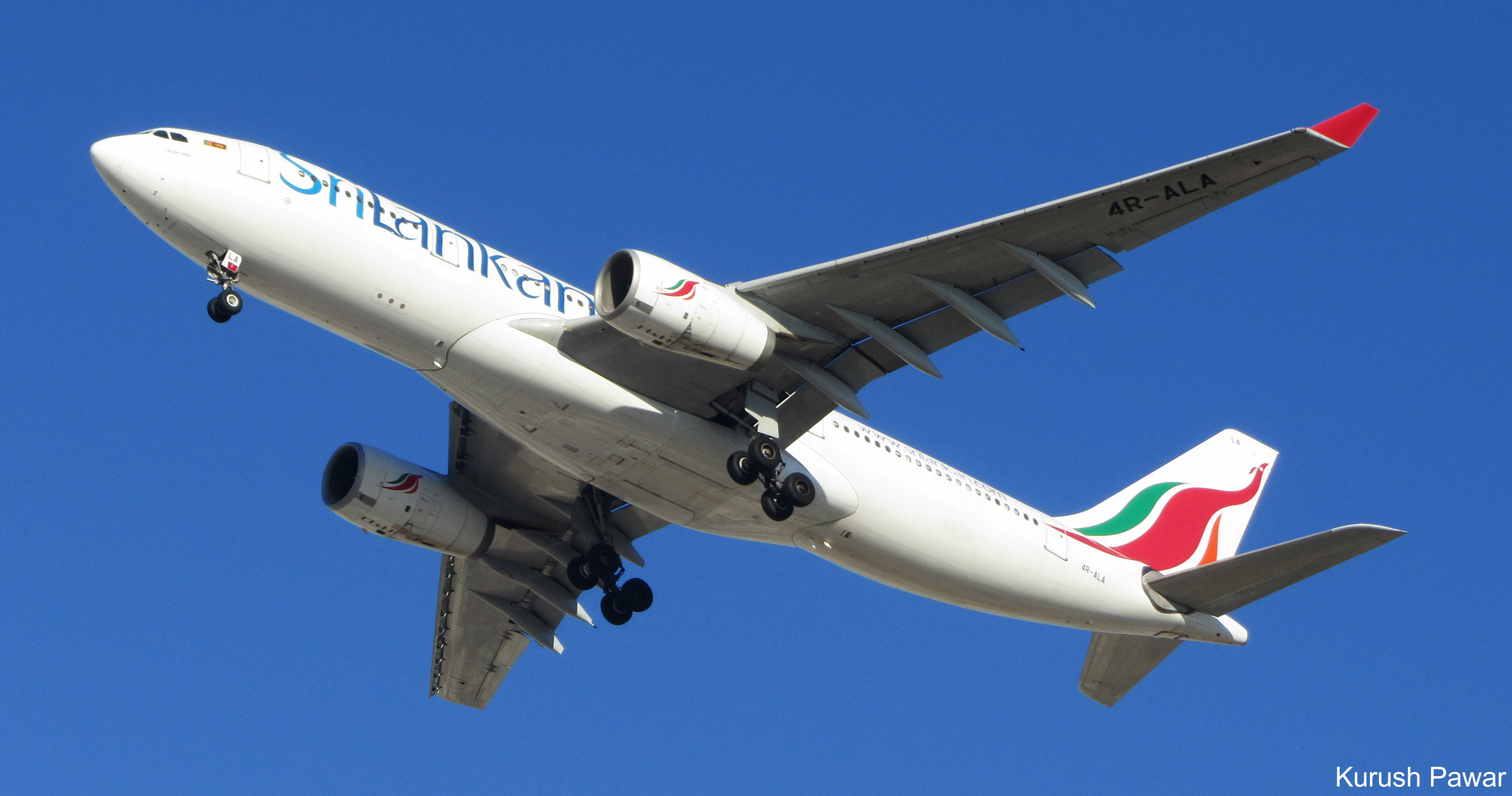 Registration: AR-ALA Airline: SriLankan Airlines Aircraft: Airbus A330-243 Construction Number (MSN): 303 Delivery: 26-10-1999 Flight Details: UL 227 / Bandaranayake International Airport (CMB) - Dubai International Airport (DXB) Like my Facebook fan page